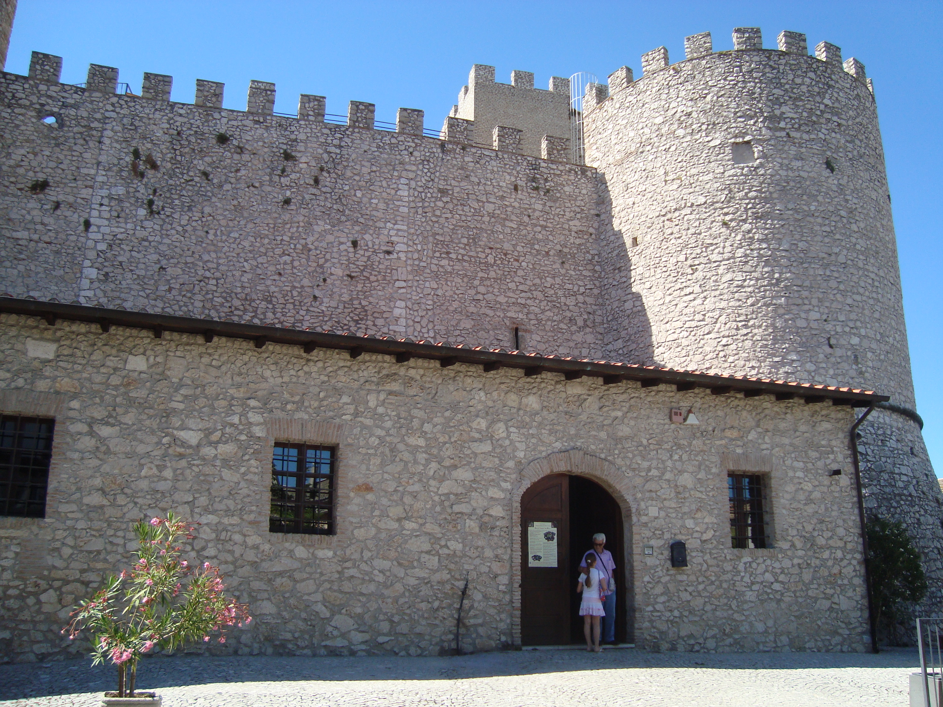 Castello Orsini's main entrance